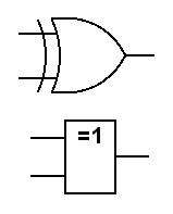 Symbols for an XOR gate with two inputs: American (above) and IEC (below).